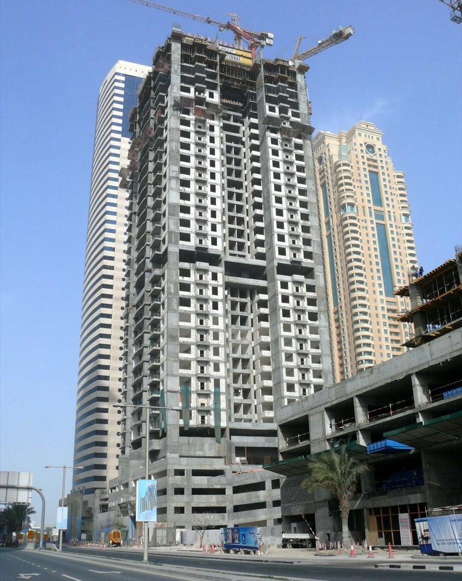 This is a photo showing the construction of Marina Pinnacle, located in Dubai Marina in Dubai, United Arab Emirates, on 4 January 2008.